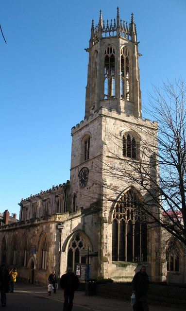 All Saints, Pavement One of the best known churches in the city centre due to its lantern tower and prominent position in the shopping centre.